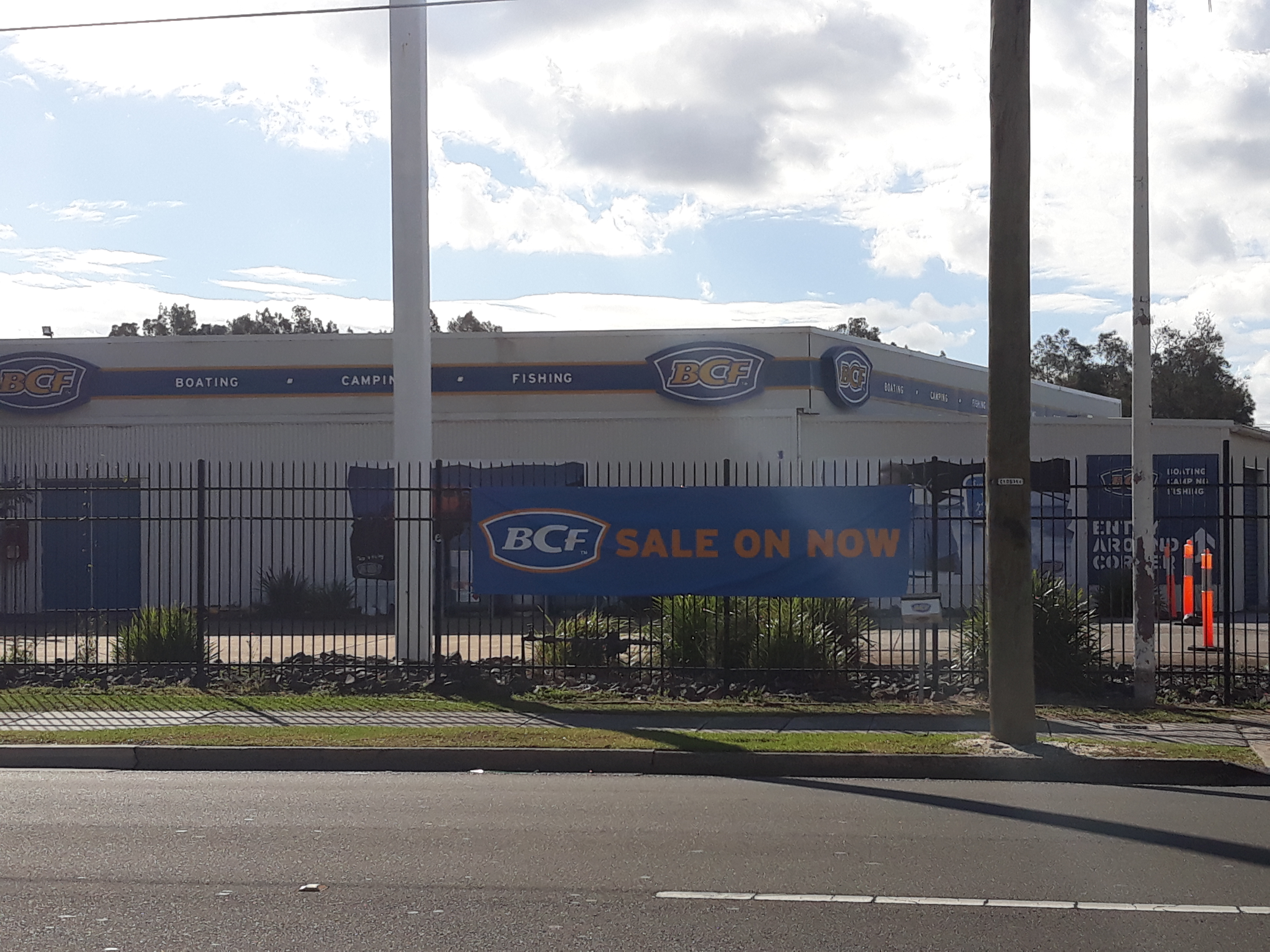 A Boating Camping and Fishing retail store in Miranda, New South Wales.